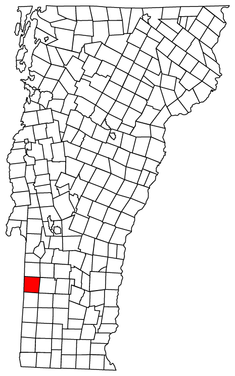 Description: Map of Vermont towns with Rupert highlighted Source: Map created by Jared C. Benedict on 26 March 2004. Copyright: © Jared C. Benedict.